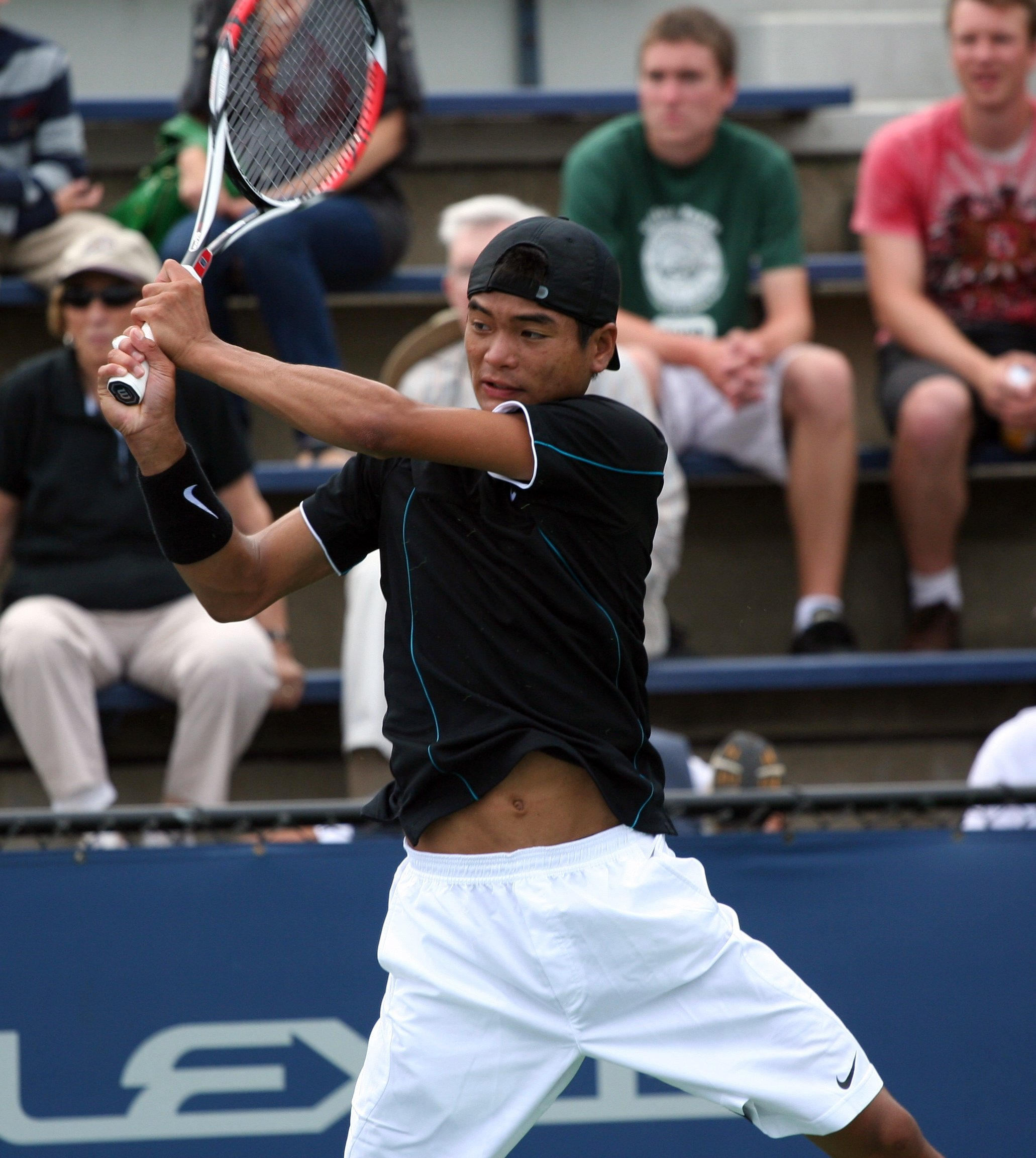 Raymond Sarmiento U.S. Open Juniors Sept. 8, 2009